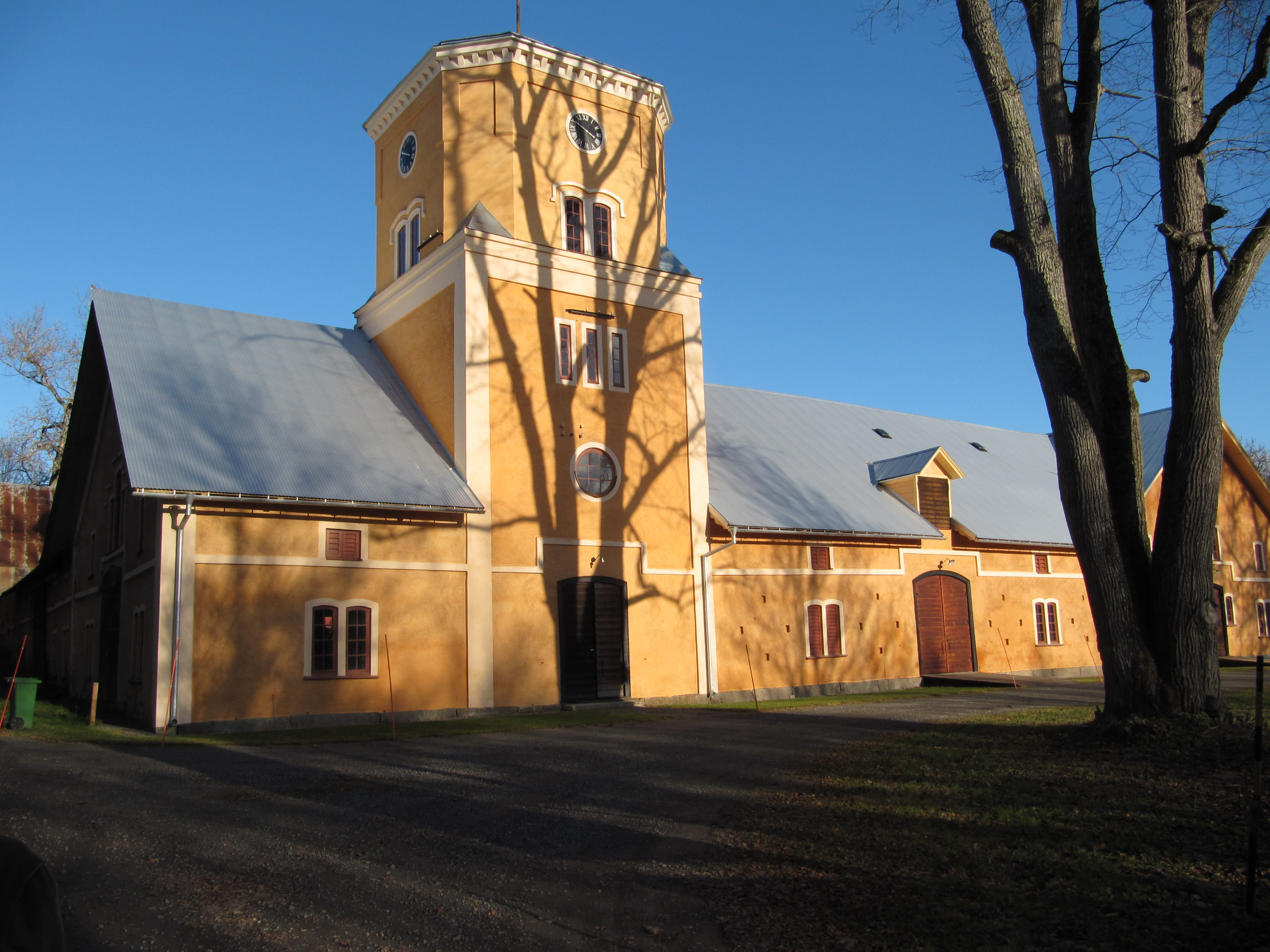 The barn at Hammarby manor, Nora, Sweden